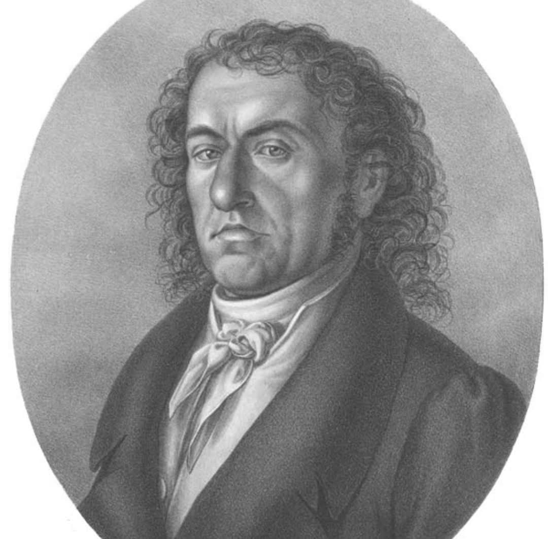 Czech composer Josef Triebensee (1772-1846)